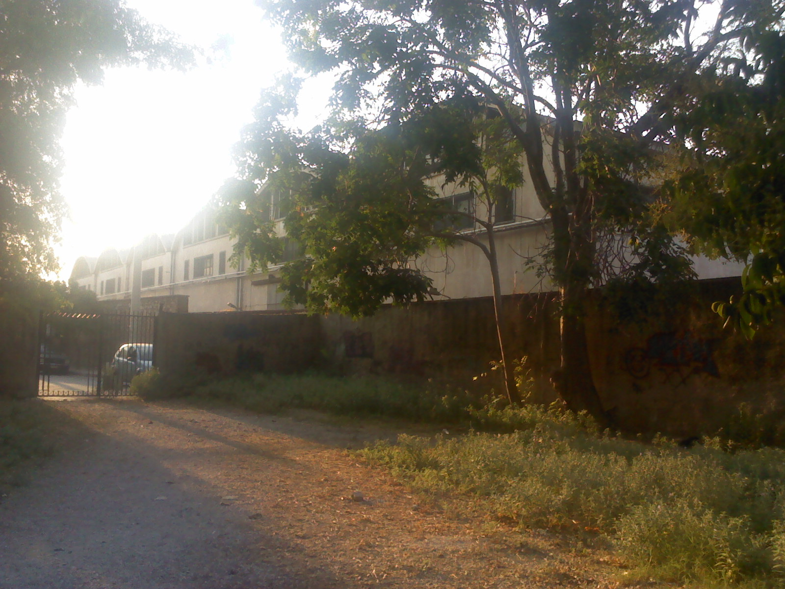 Ministry Central Warehouse material Tavros